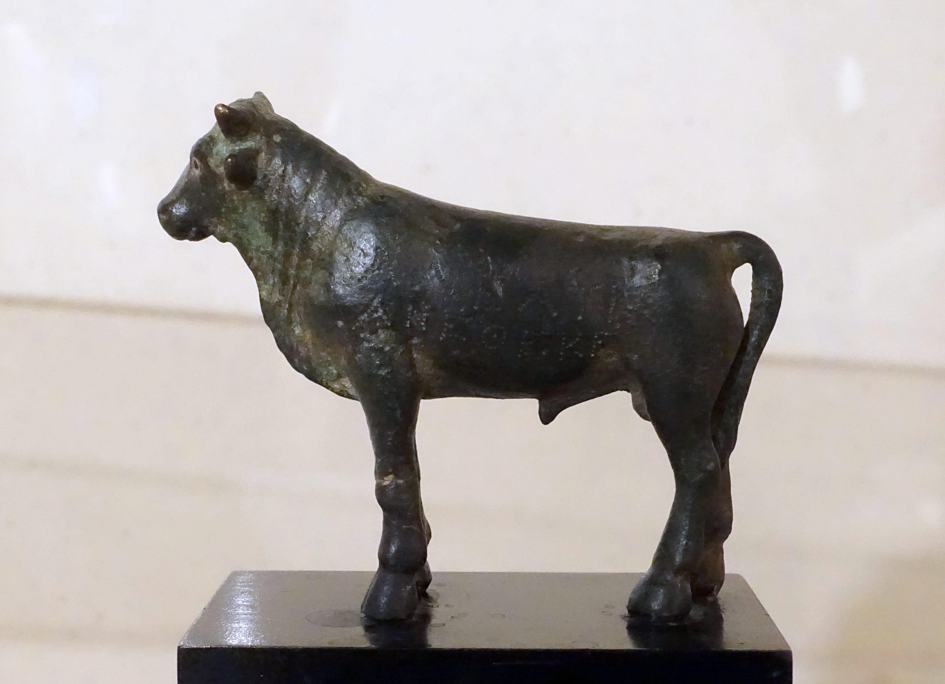 Exhibit in the Spurlock Museum, University of Illinois at Urbana-Champaign - Urbana-Champaign, Illinois, USA. This work is old enough so that it is in the public domain.